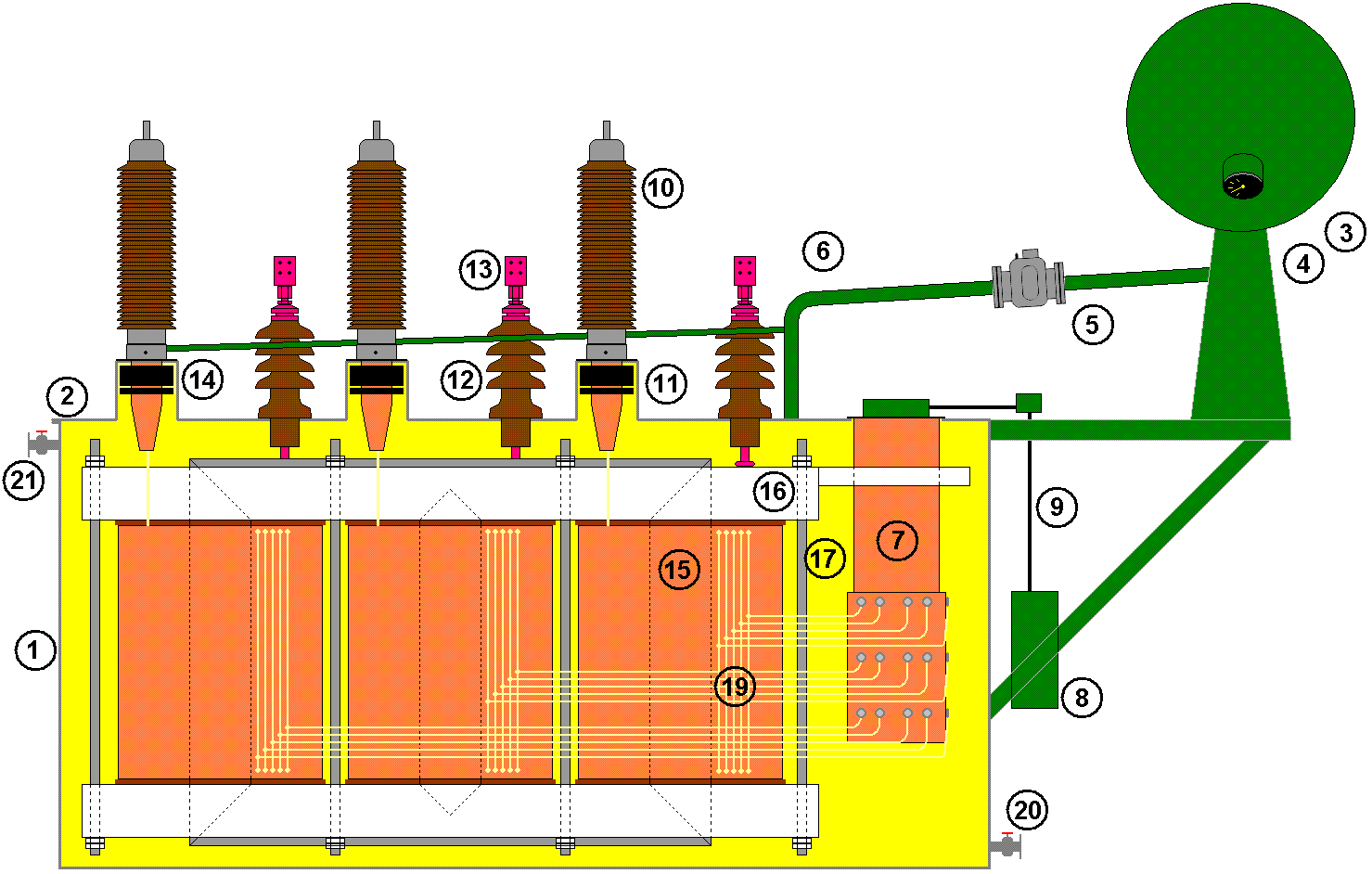 Tank Lid Conservator tank The oil level indicator (end of conservator tank) Buchholz relay for detecting gas bubbles after an internal fault Piping to conservator tank and Buchholz relay Tap changer to change output voltage The motor drive of the tap changer (can be controlled by an automatic voltage regulator) Drive shaft for tap changer High voltage (HV) bushing connects the internal HV coil with the external HV grid High voltage bushing current transformers for measurement and protection Low voltage (LV) bushing connects LV coil to LV grid Low voltage current transformers . Bushing voltage-transformer for metering the current through the passing bushing Core Yoke of the core Limbs connect the yokes and hold them up Coils Internal wiring between coils and tapchanger Oil release valve Vacuum valve